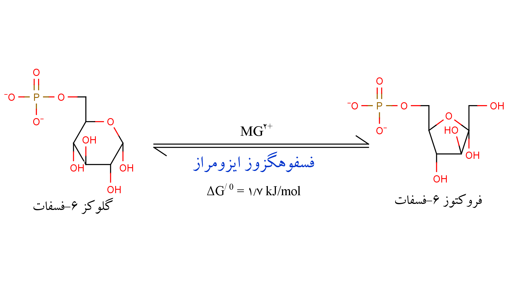 phosphohexose isomerase reaction